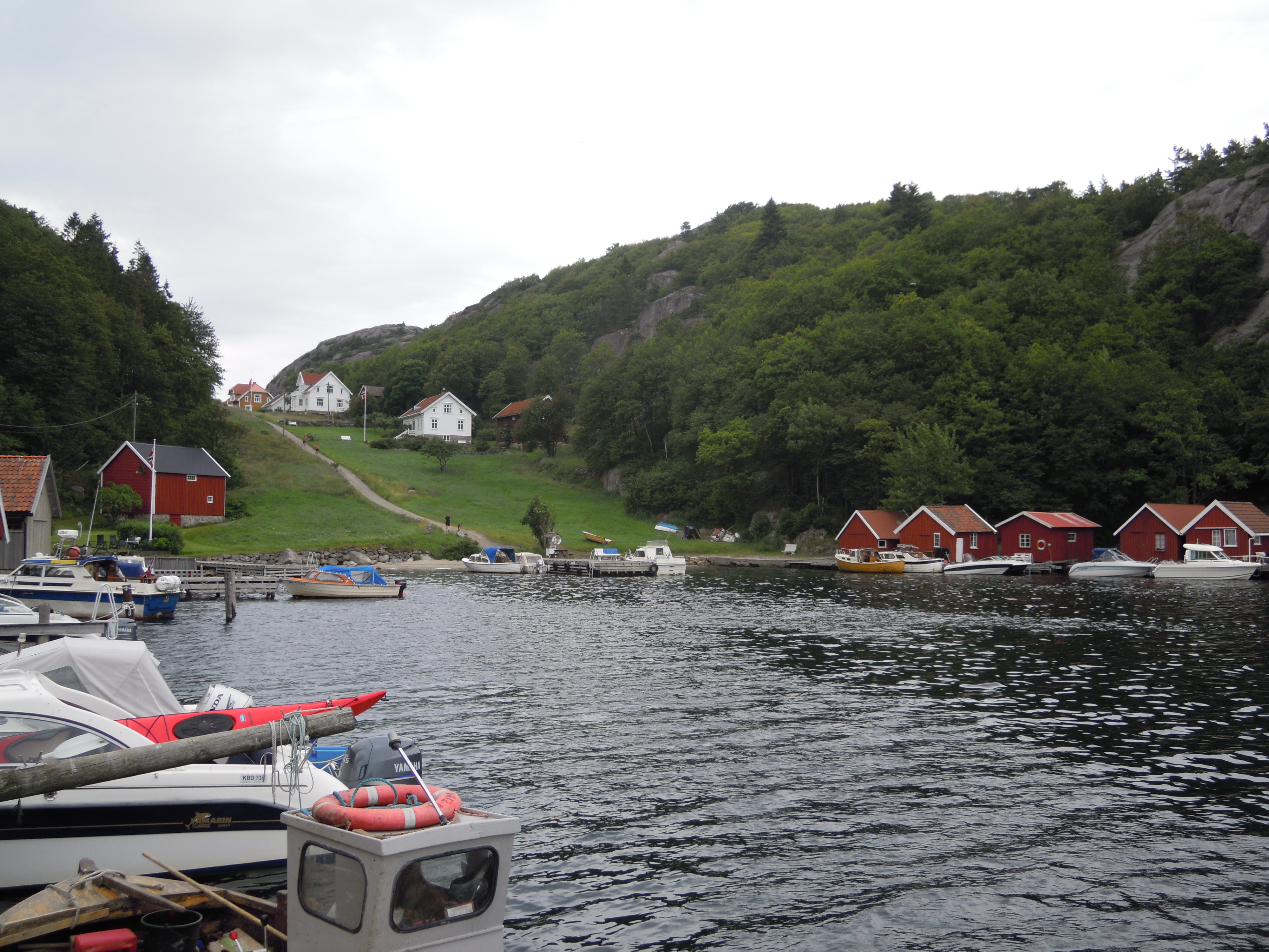 Hille, Mandal kommune, Norway